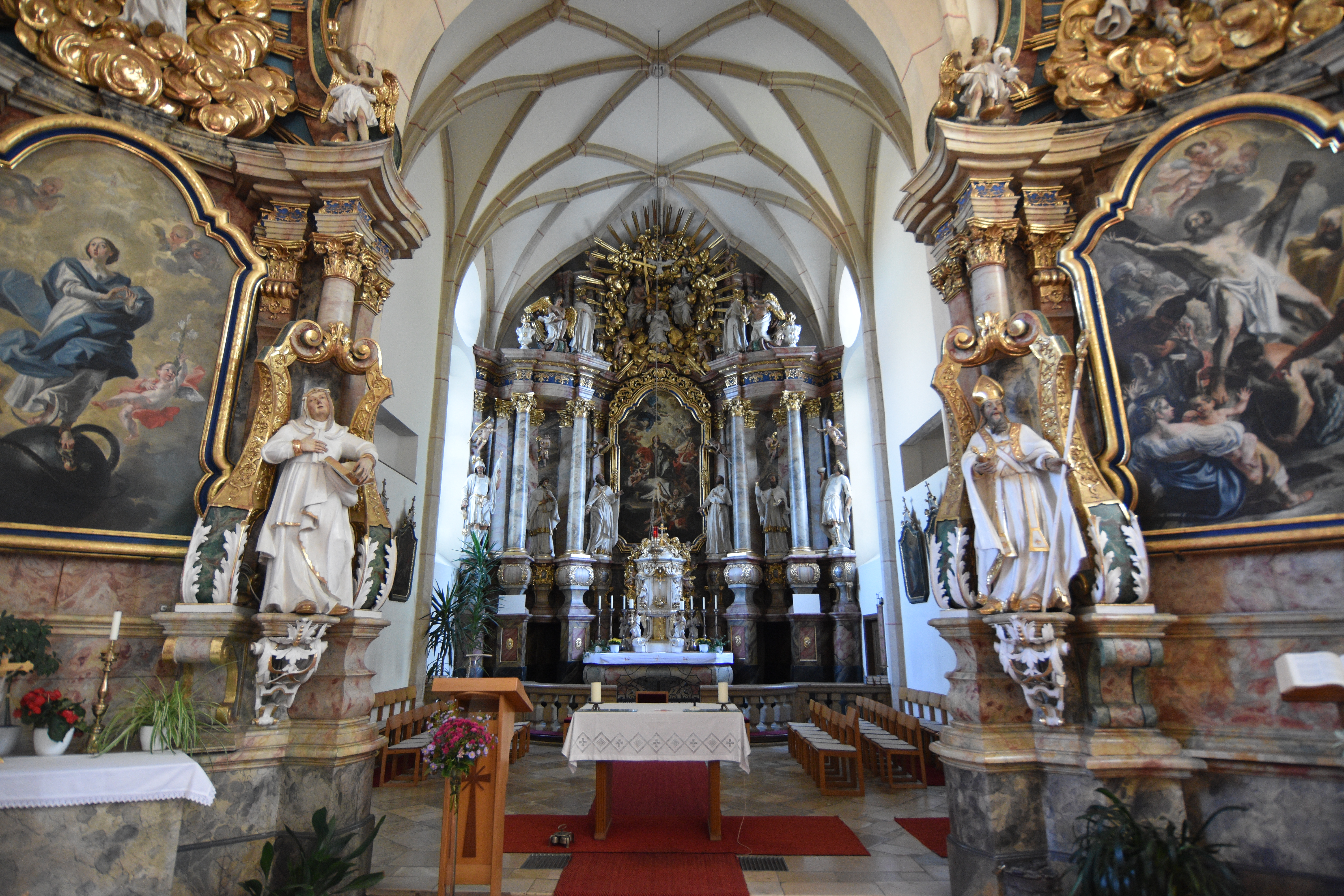 Pfarrkirche hl. Jakobus, Friedberg - Interior